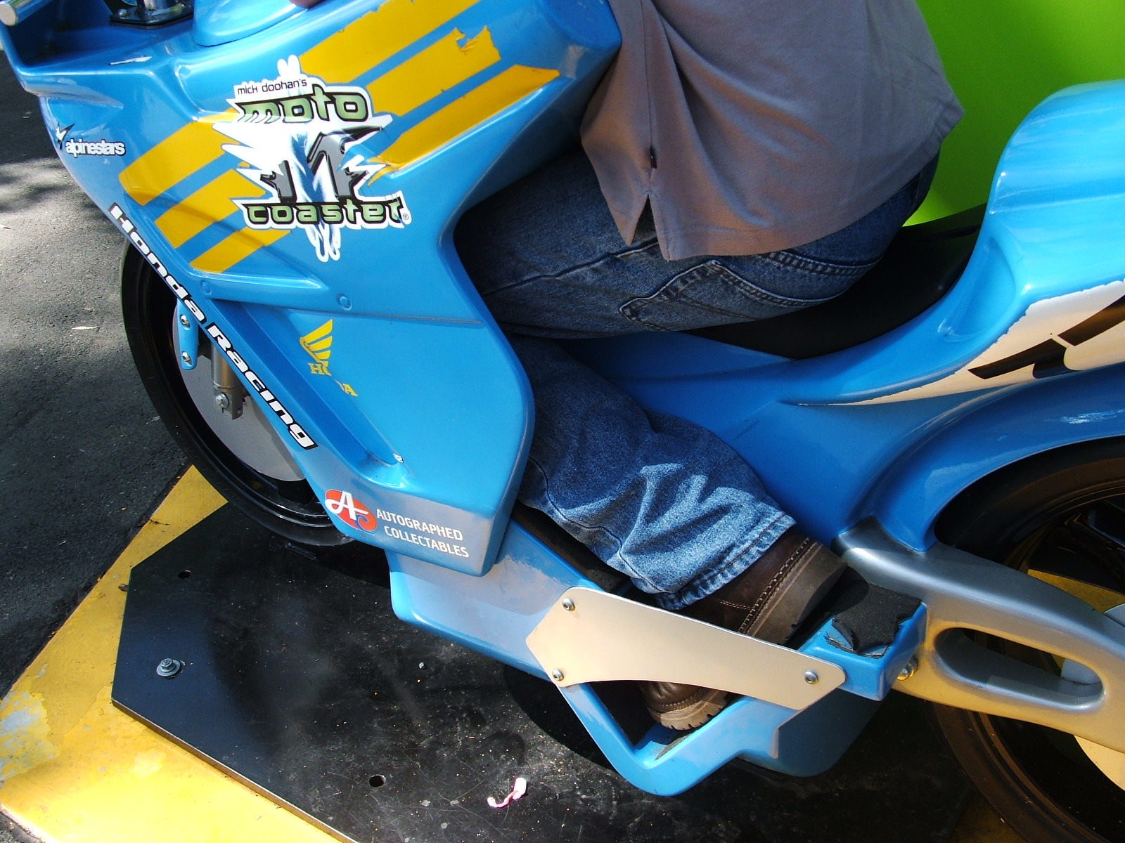 Lower half of the passenger testing unit for the Mick Doohan Motorcoaster ride.The front half of the 'bike' fold down over the rider's legs, securing them